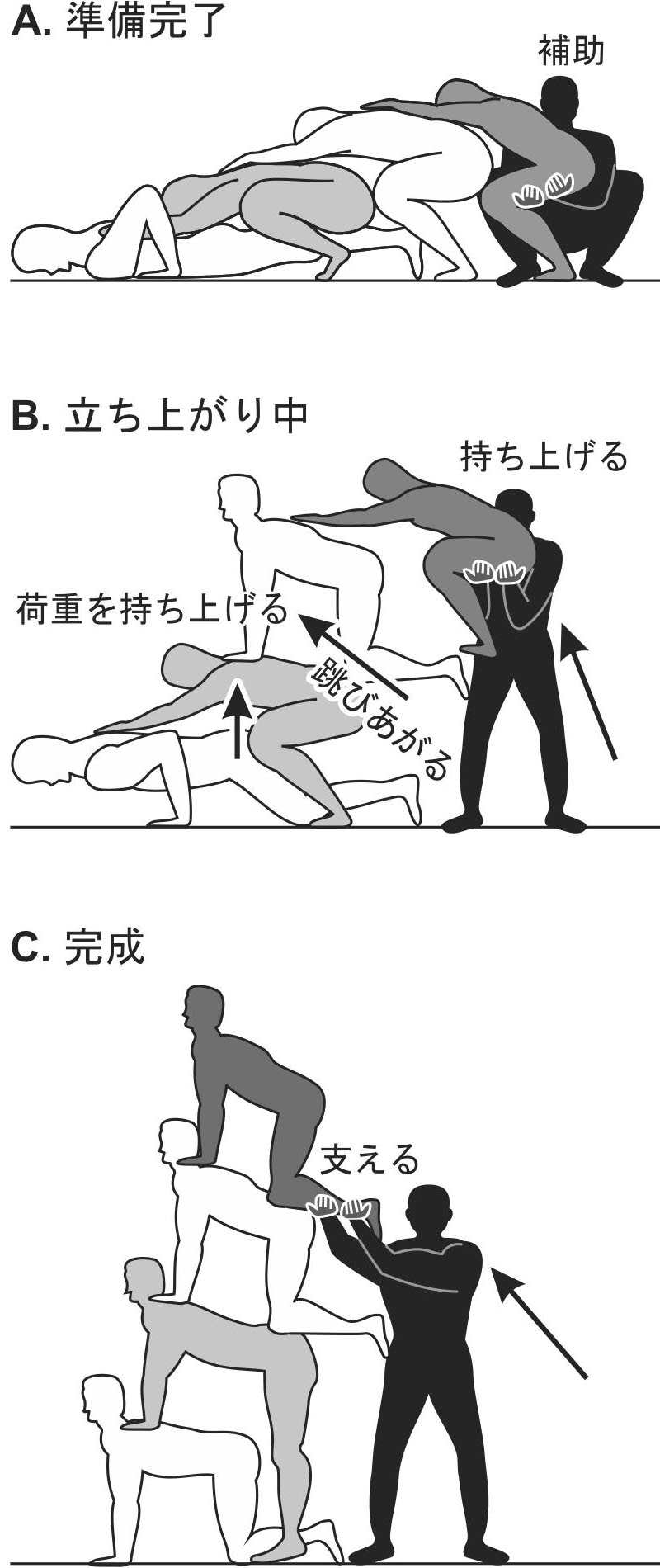 4-Layers pyramid